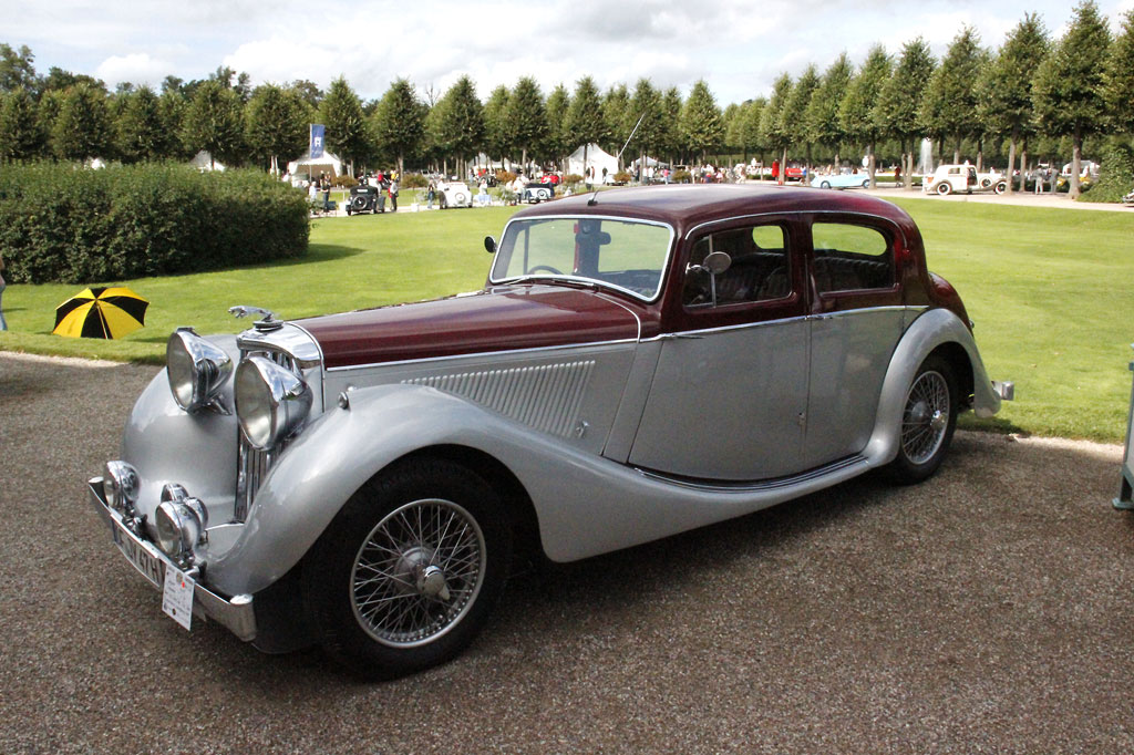 1947 Jaguar MK IV Limousine_IMG_0925